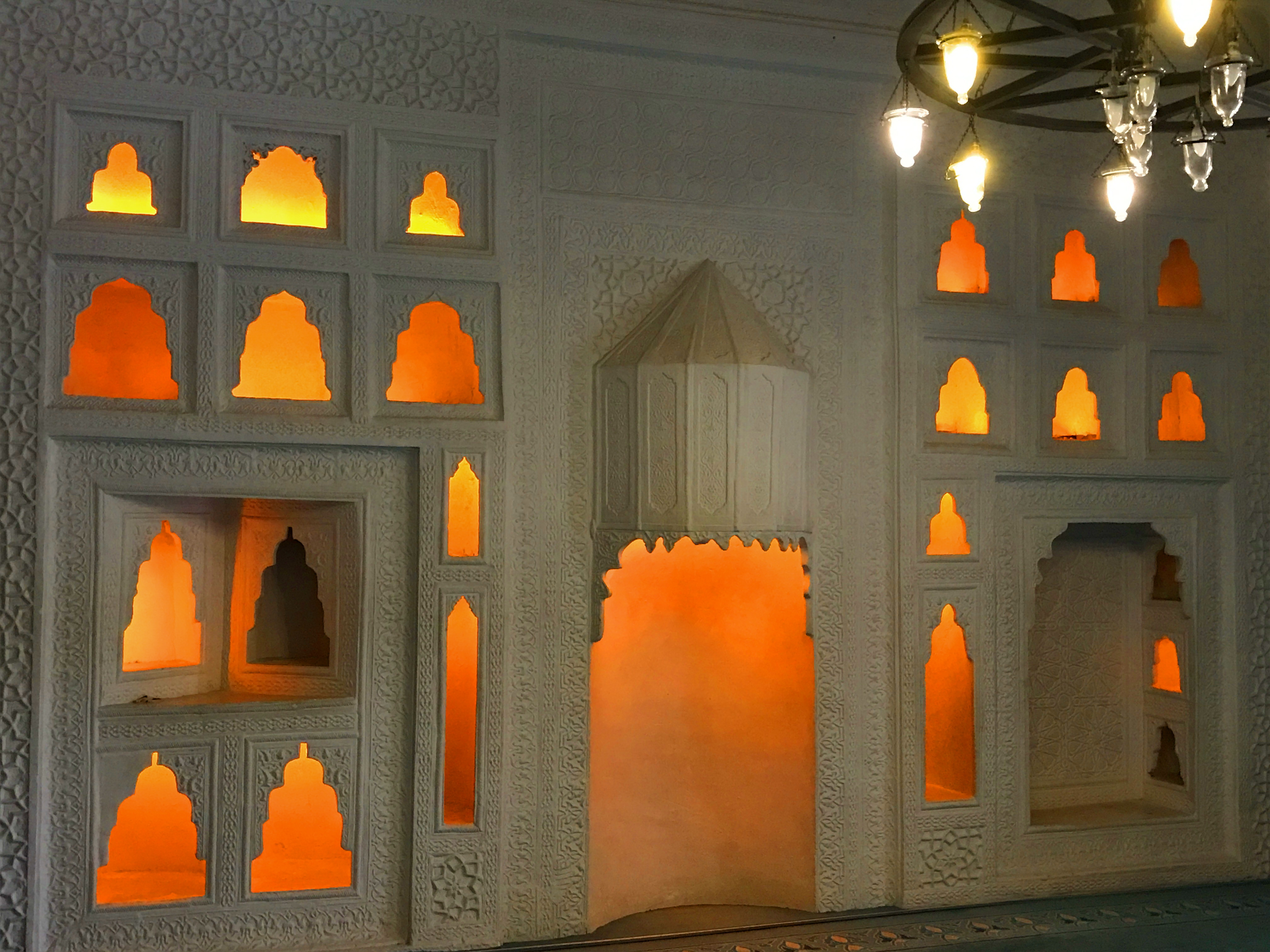 Green Mosque of Bursa, Turkey, 2017. Green Mosque (Turkish: Yeşil Camii, "Yeşil Mosque"), also known as Mosque of Sultan Mehmed I, is a part of the larger complex (a külliye) located on the east side of Bursa, Turkey, the former capital of the Ottoman Turks before they captured Constantinople in 1453. The complex consists of a mosque, türbe, madrasah, kitchen and bath.